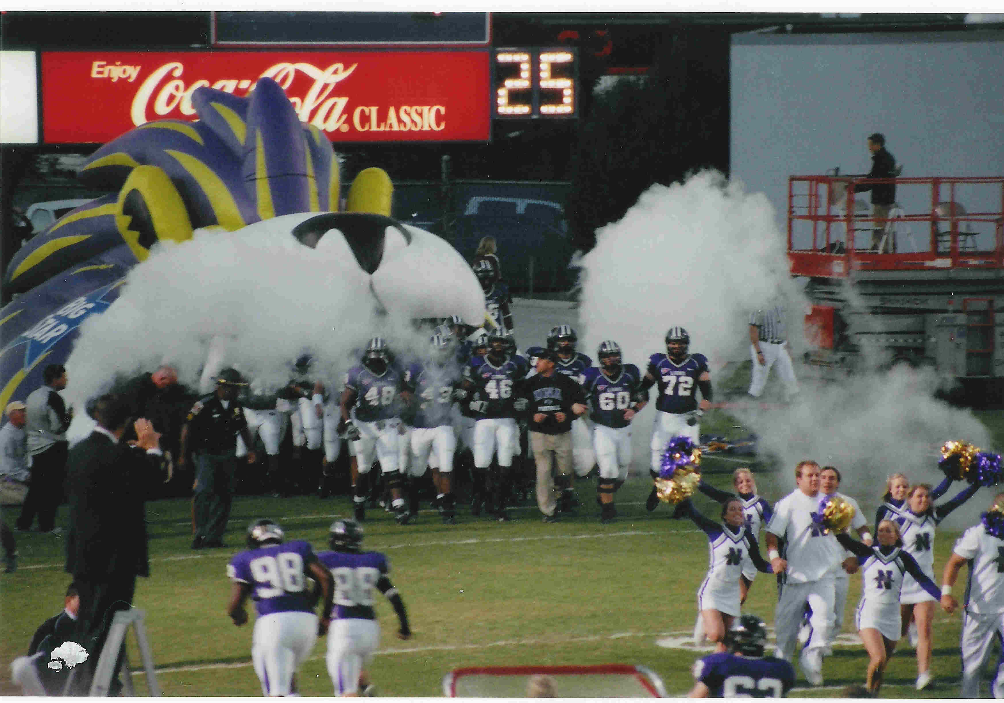 Taken by me at Braly Municipal stadium, Florence Alabama, of University of North Alabama Lions, November 4, 2007.